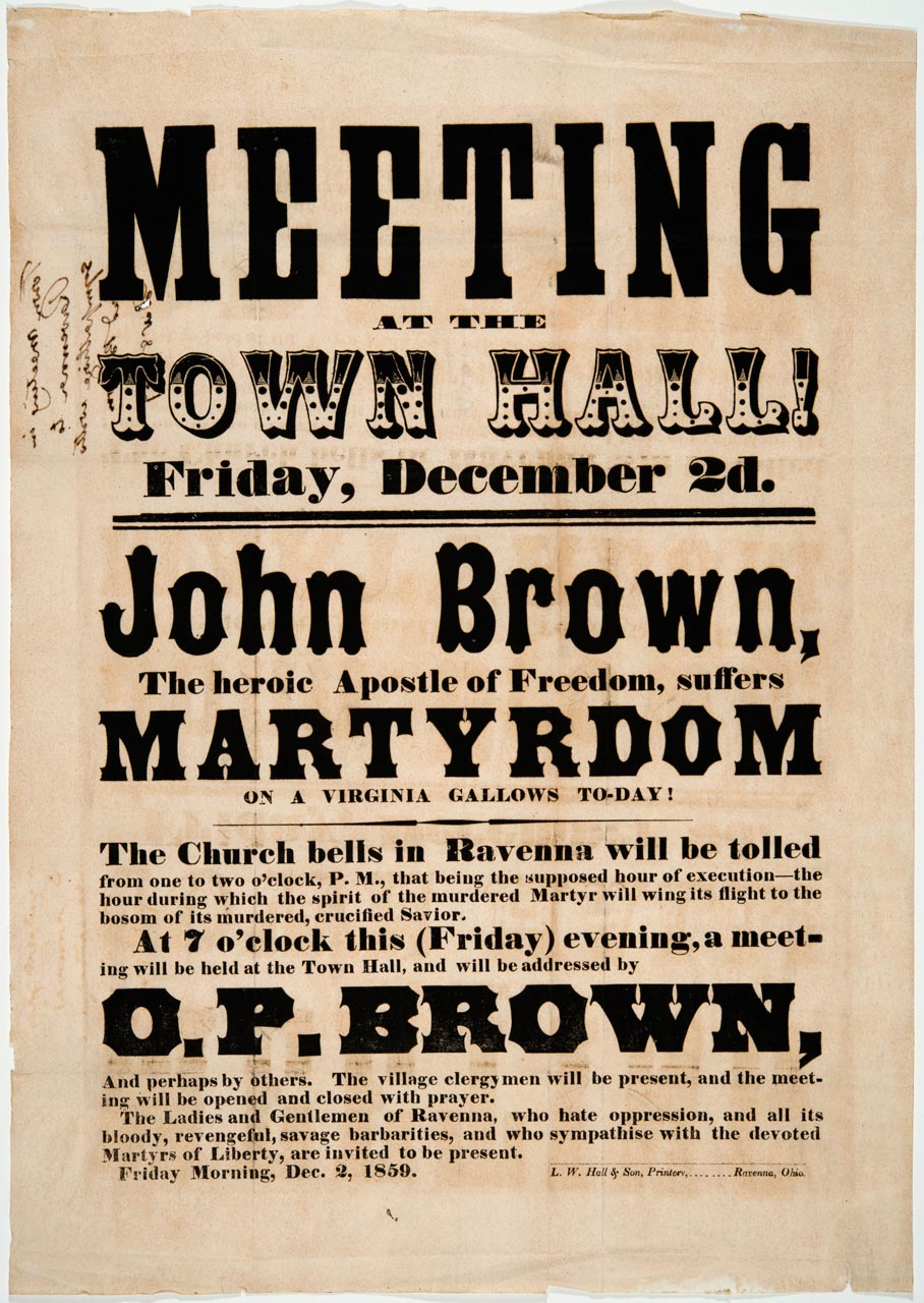 The trial and execution of John Brown was one of the events leading to the American Civil War. John Brown's execution in Virginia, December 2, 1859, is received with tolling of church bells and protests in Ravenna, Ohio.